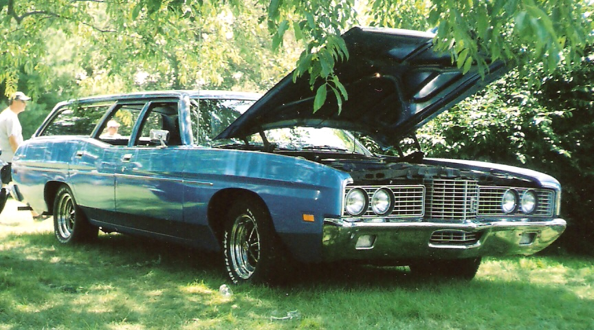 1972 Ford Ranch Wagon I photographed at Endicott Estates in Dedham, Massachusetts.